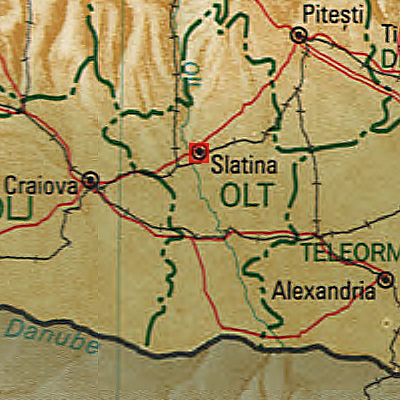 Map of Slatina Municipality, Romania.